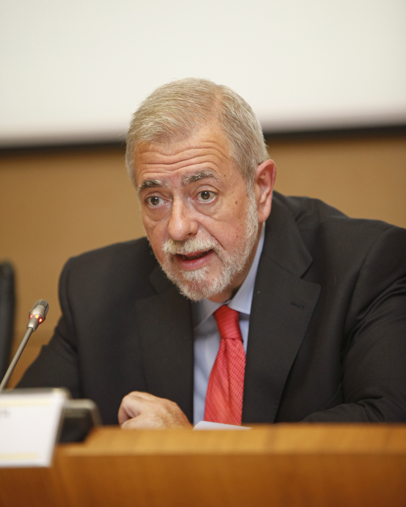 Encuentro Aporta: iniciativas Open Data en España. Edición 2012. Antonio Beteta Barreda, secretario de Estado de Administraciones Públicas (Ministerio de Hacienda y Administraciones Públicas).